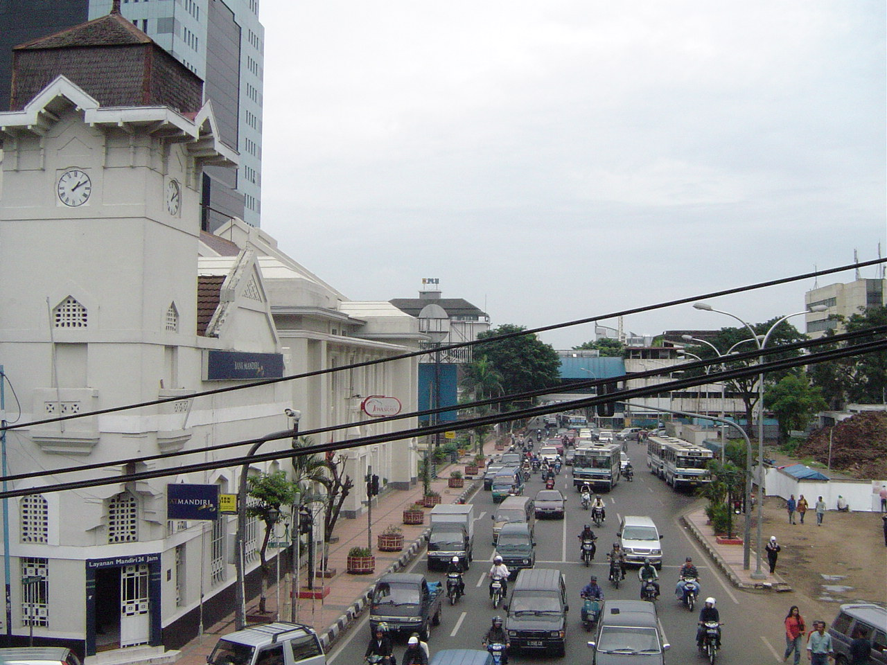 The Asia Afrika Street (formerly the Great Post Road) in Bandung.